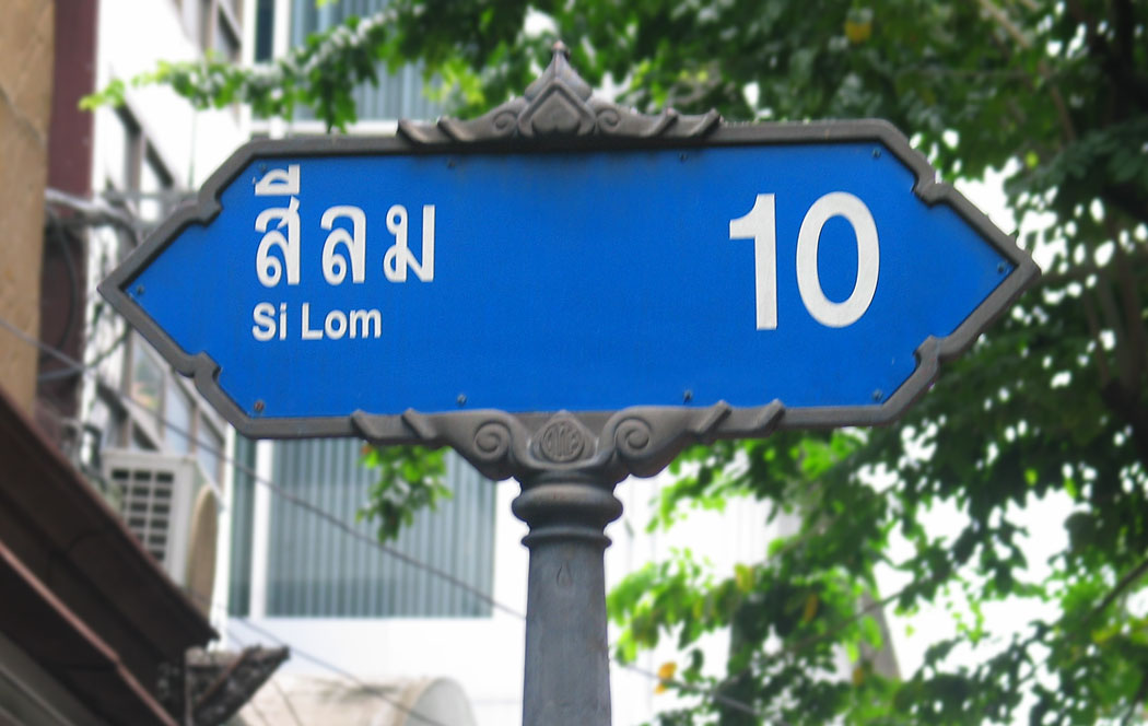 Streetsign in Bangkok, Thailand: "Silom Soi 10" (side Street nbr. 10 of Silom Road).